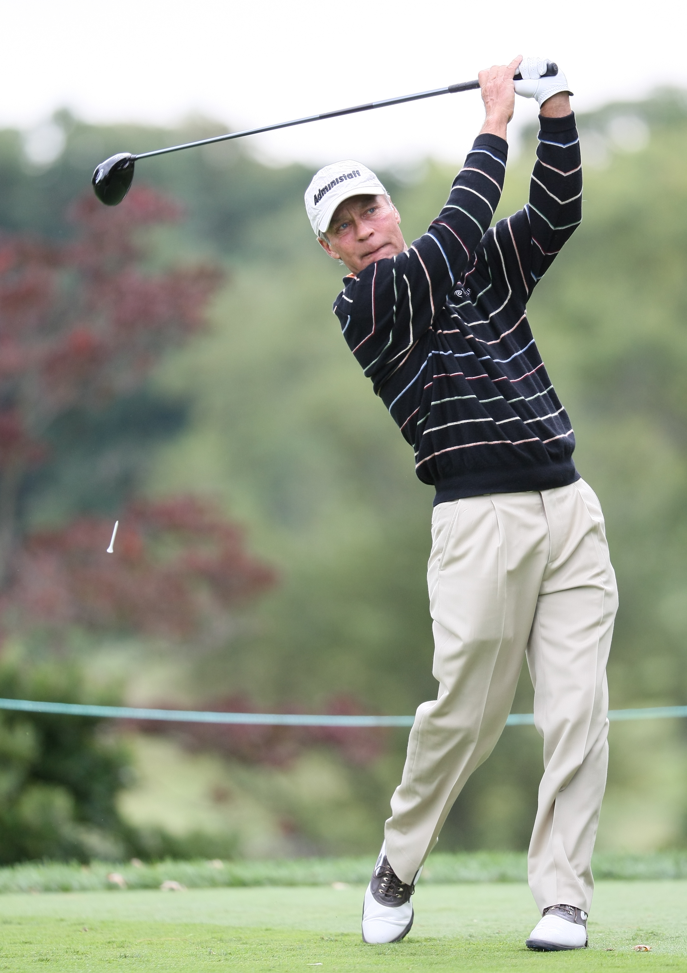 Constellation Energy Senior Players Championship Pro-Am held at Baltimore Country Club/Five Farms (East Course) on September 30, 2009 in Timonium, Maryland